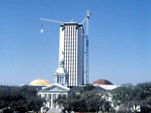 Looking west at the east side of the capitol, in Tallahassee, Florida, United States.